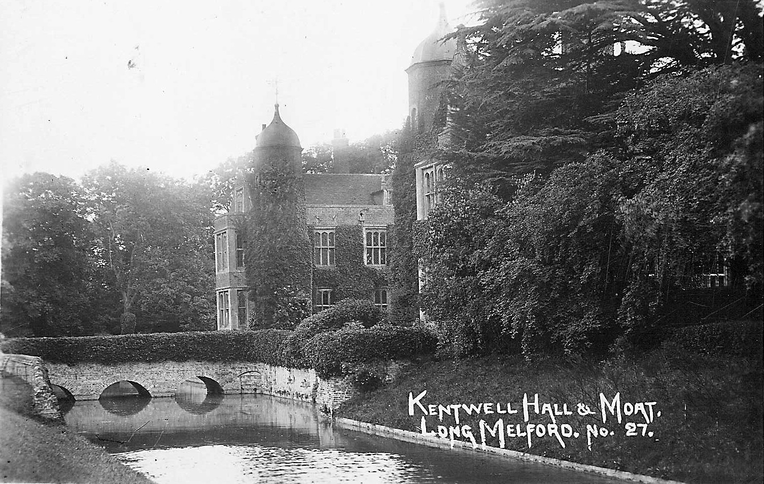 View of the south face of Kentwell Hall in 1910